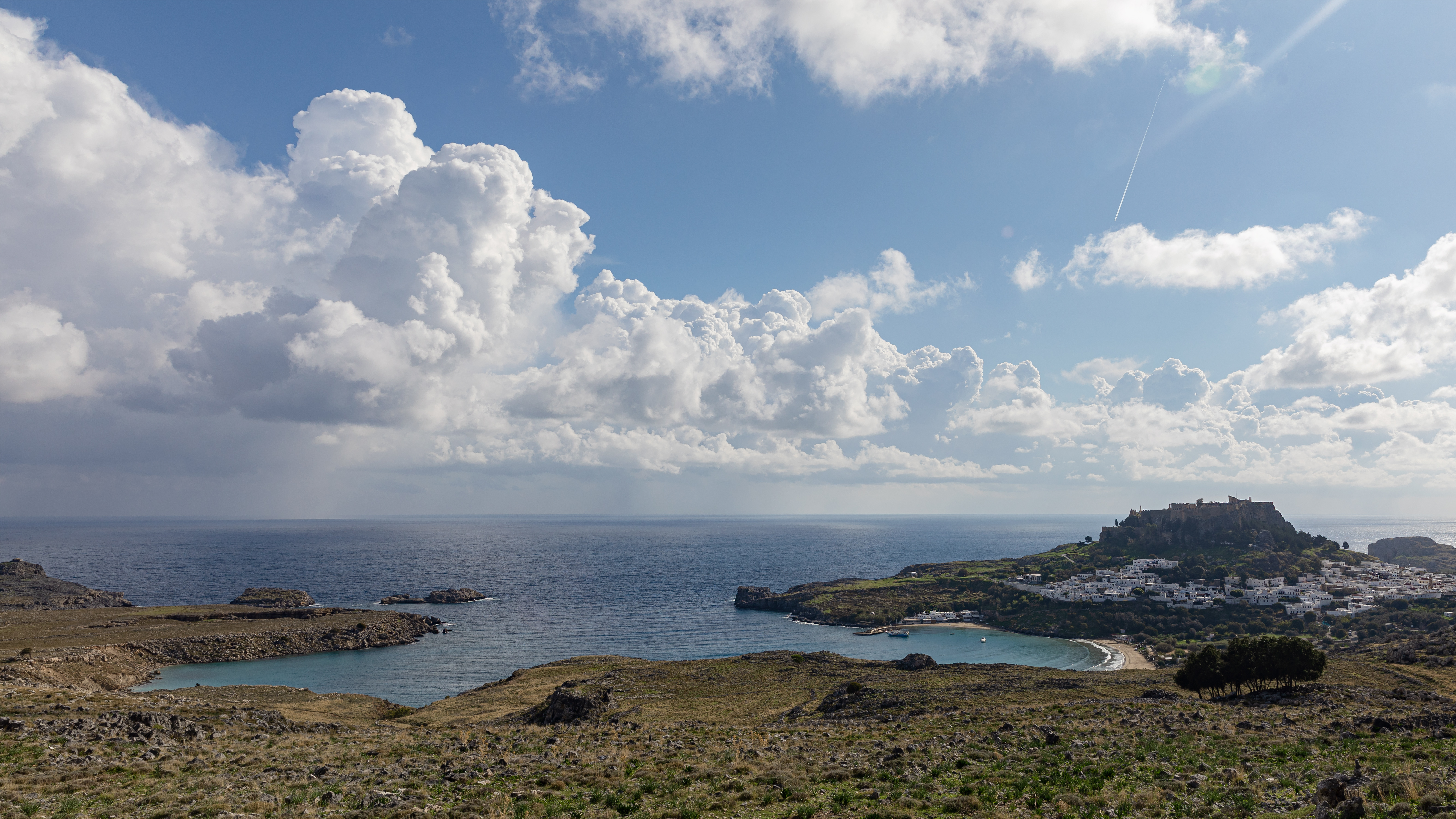 Bay of Lindos (Rhodes, Greece).